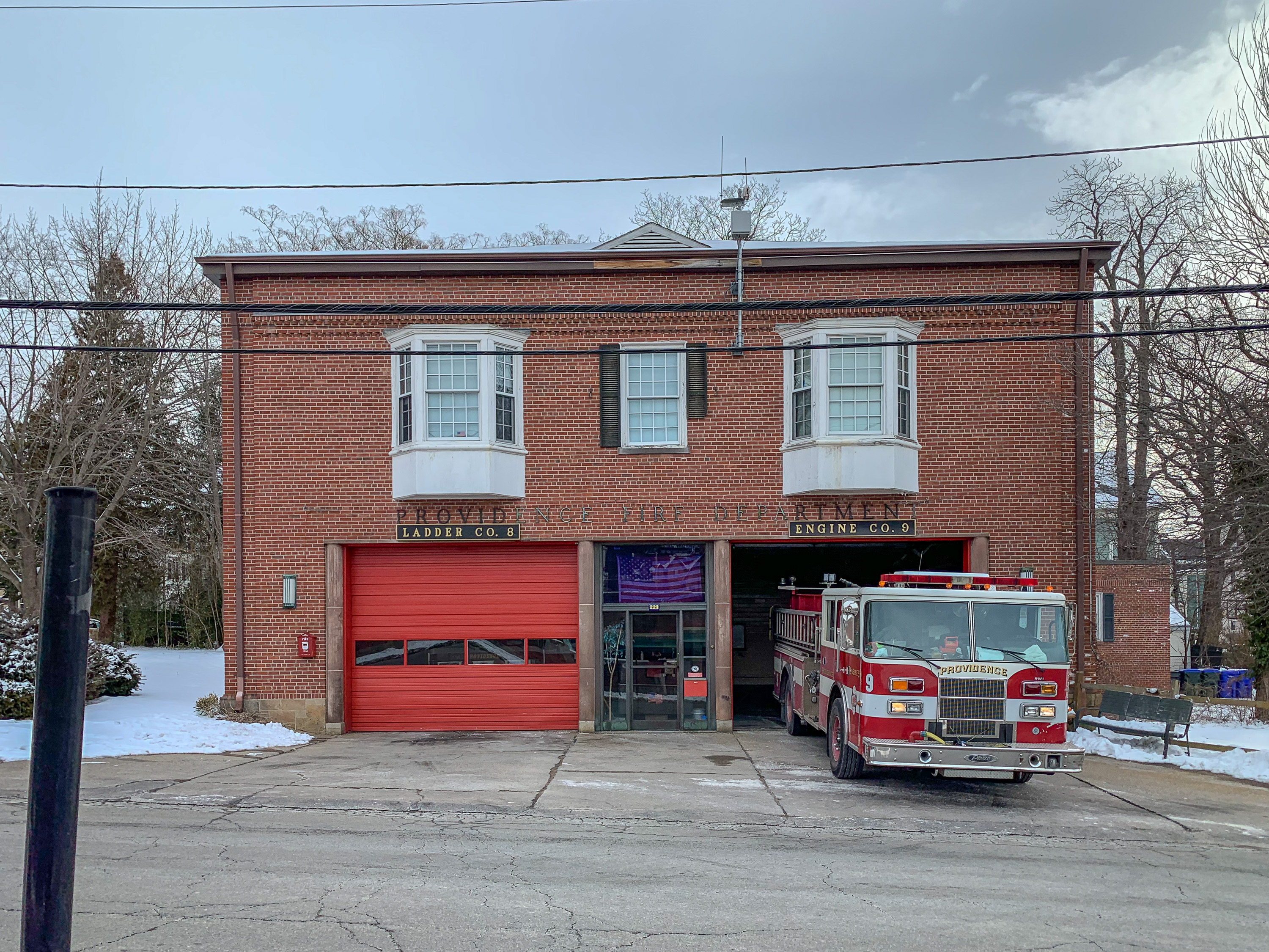 Brook Street Fire Station L8 and E9, Providence RI